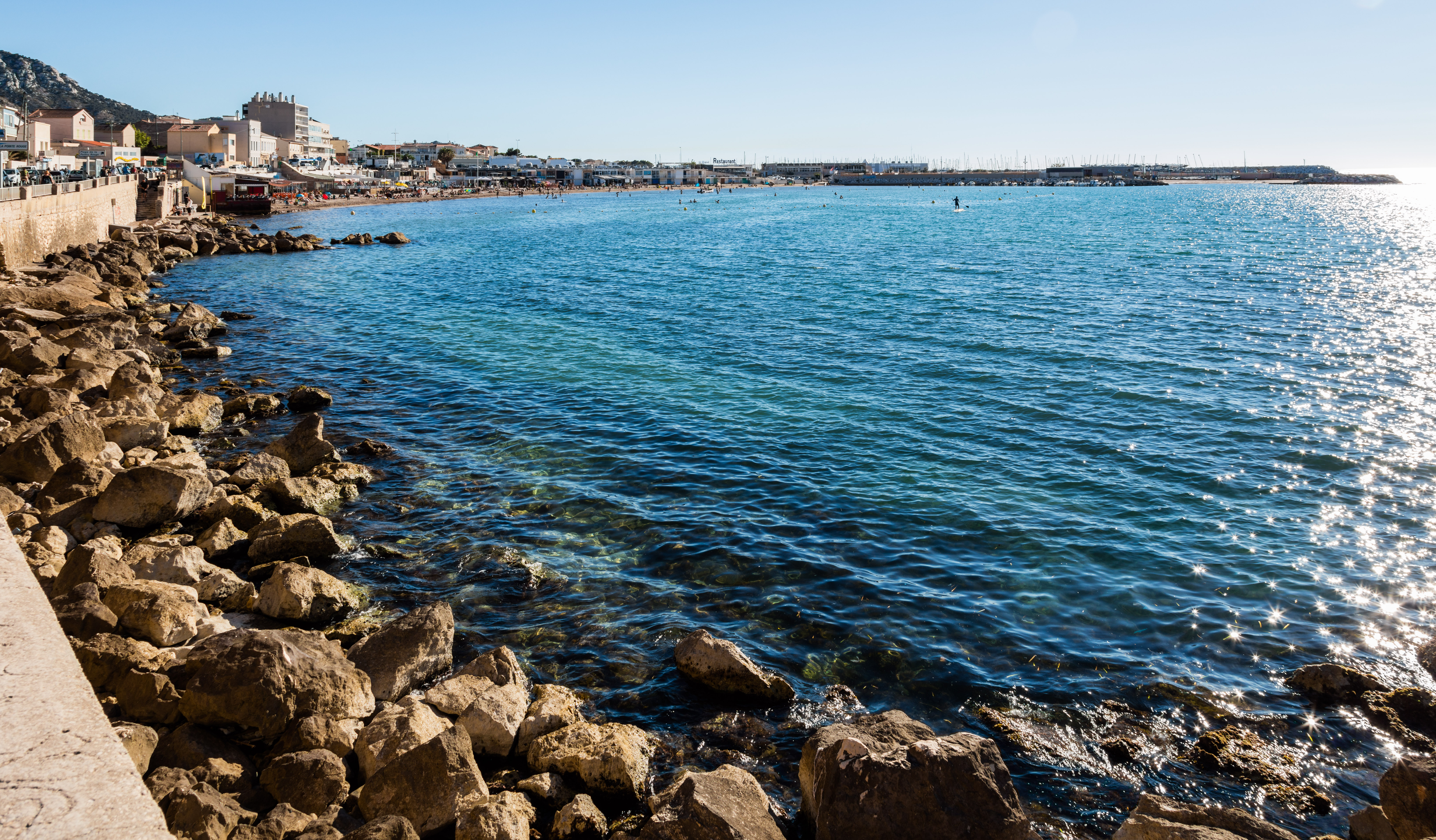 Beach of the Red Tip, Marseille, France